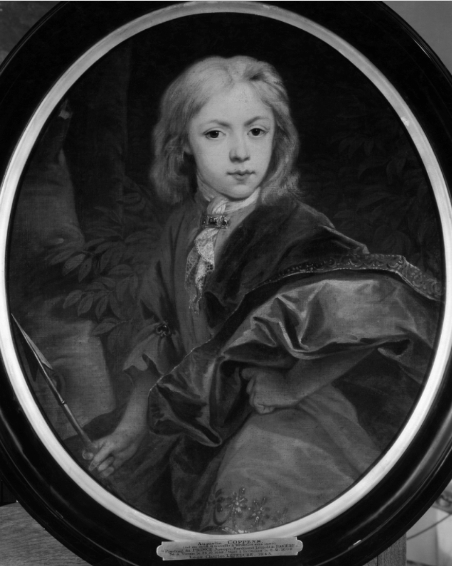 Portrait of Prince Joseph Ferdinand of Bavaria